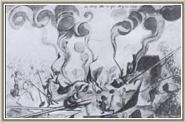 William Stukeley's drawing of the Avebury megaliths being broken up by fire.